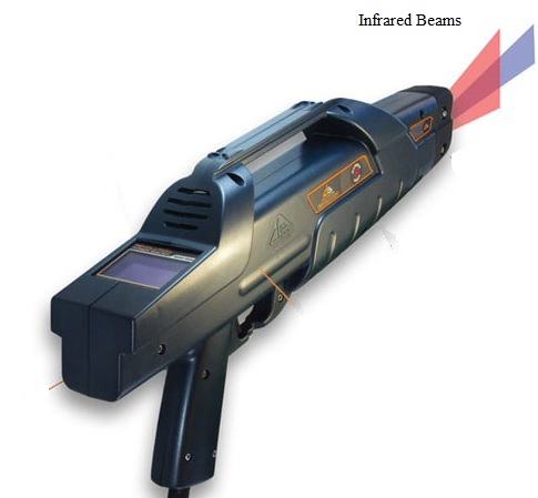 Delta Strike’s laser tag guns called Evolution FEC and PRO models are the future of laser tag gaming. State of the art in the field of laser entertainment. Laser tag guns have internal LED lights dance and flicker through a semi-transparent gray casing. The Evolution phaser looks just like a futuristic space weapon out of films and video games. The internal lights, along with the phasers other great features, all fit into a case that is lighter than any other laser tag phaser on the market. It also maintains the strength our product is known for.